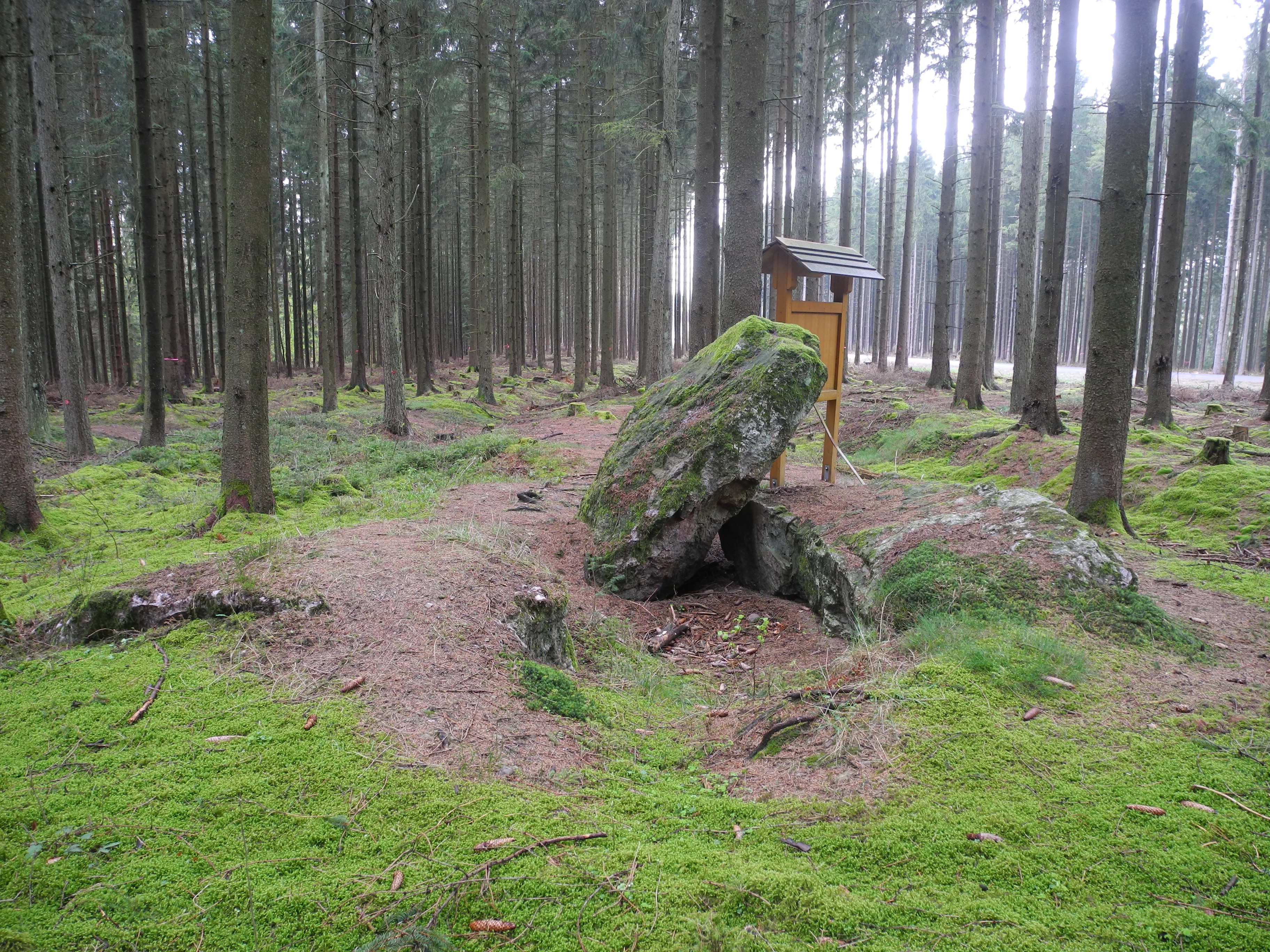 Megalithic grave "Drei Mörder" (near Bonerath in Rhineland-Palatinate).